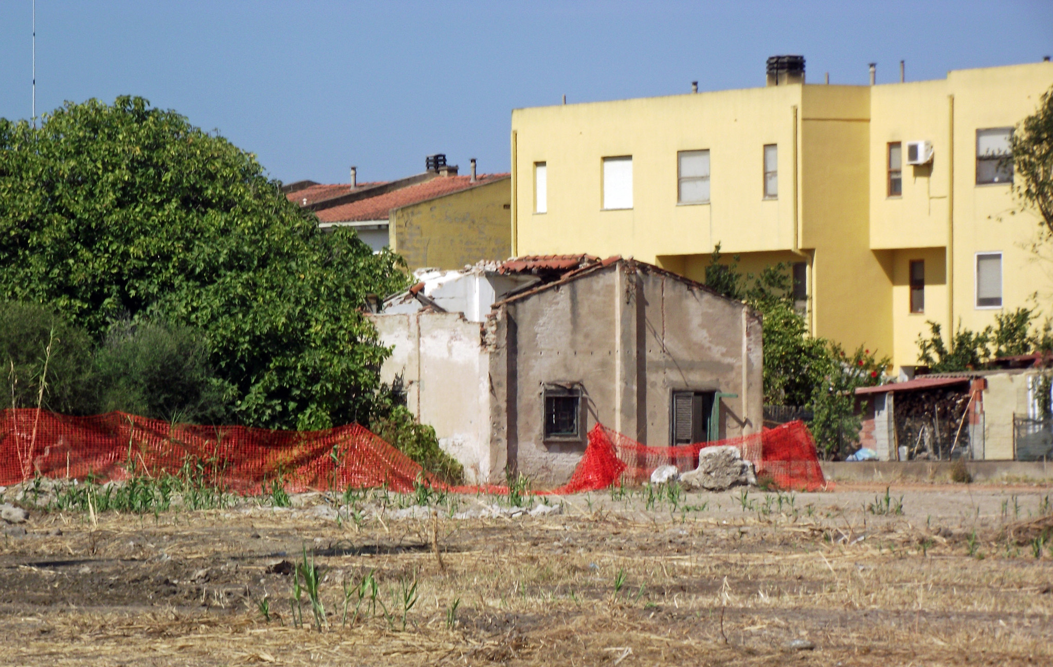 The building where in the past was active the zincing of railway trucks for the transport of coal in the former railway station of San Giovanni Suergiu, in Sardinia, Italy. Afterwards it was used as dormitory for the Ferrovie Meridionali Sarde staff, before fall into disuse